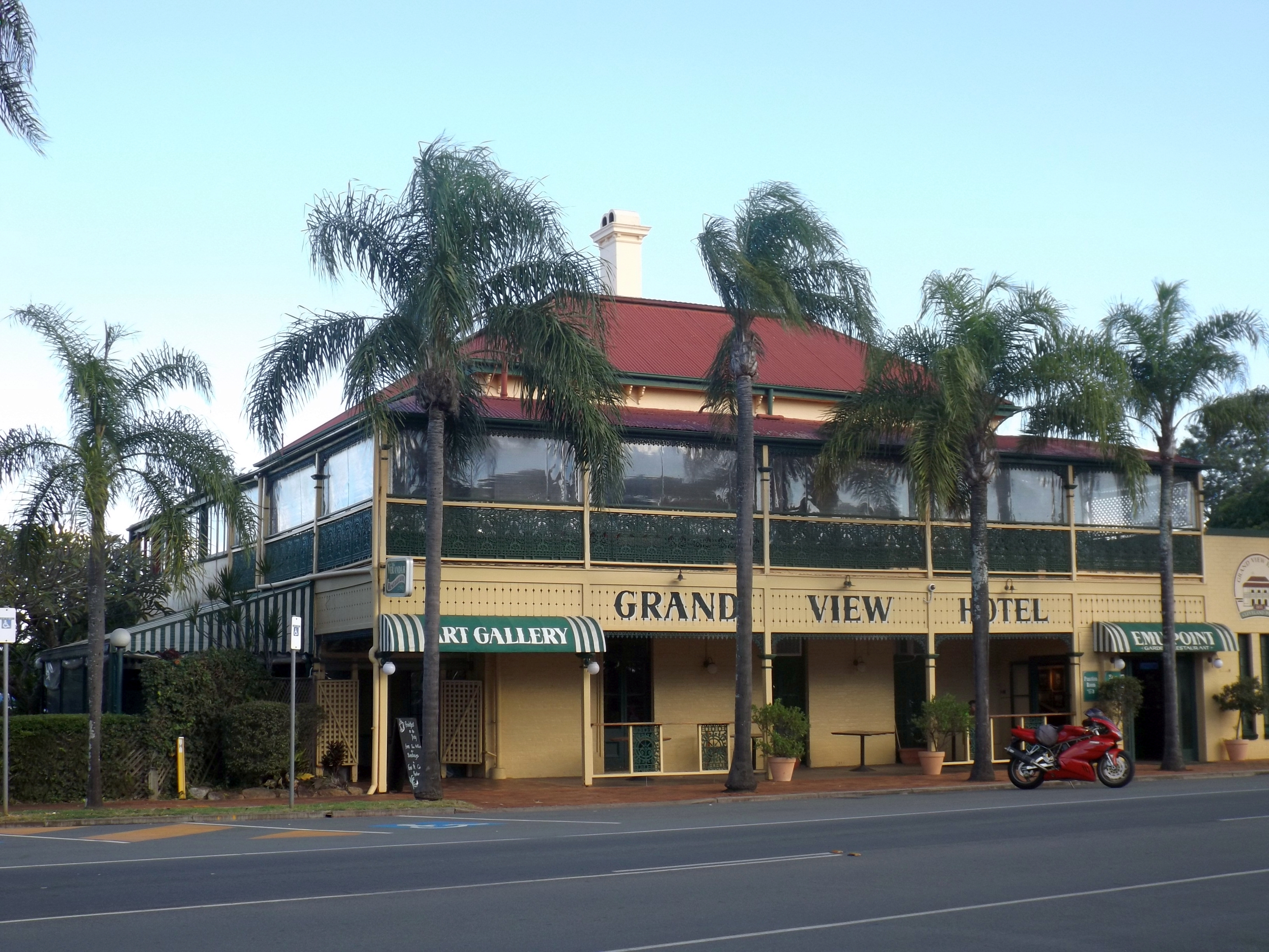 Photo of Grand View Hotel and North Street at Cleveland, City of Redland, Queensland, Australia.